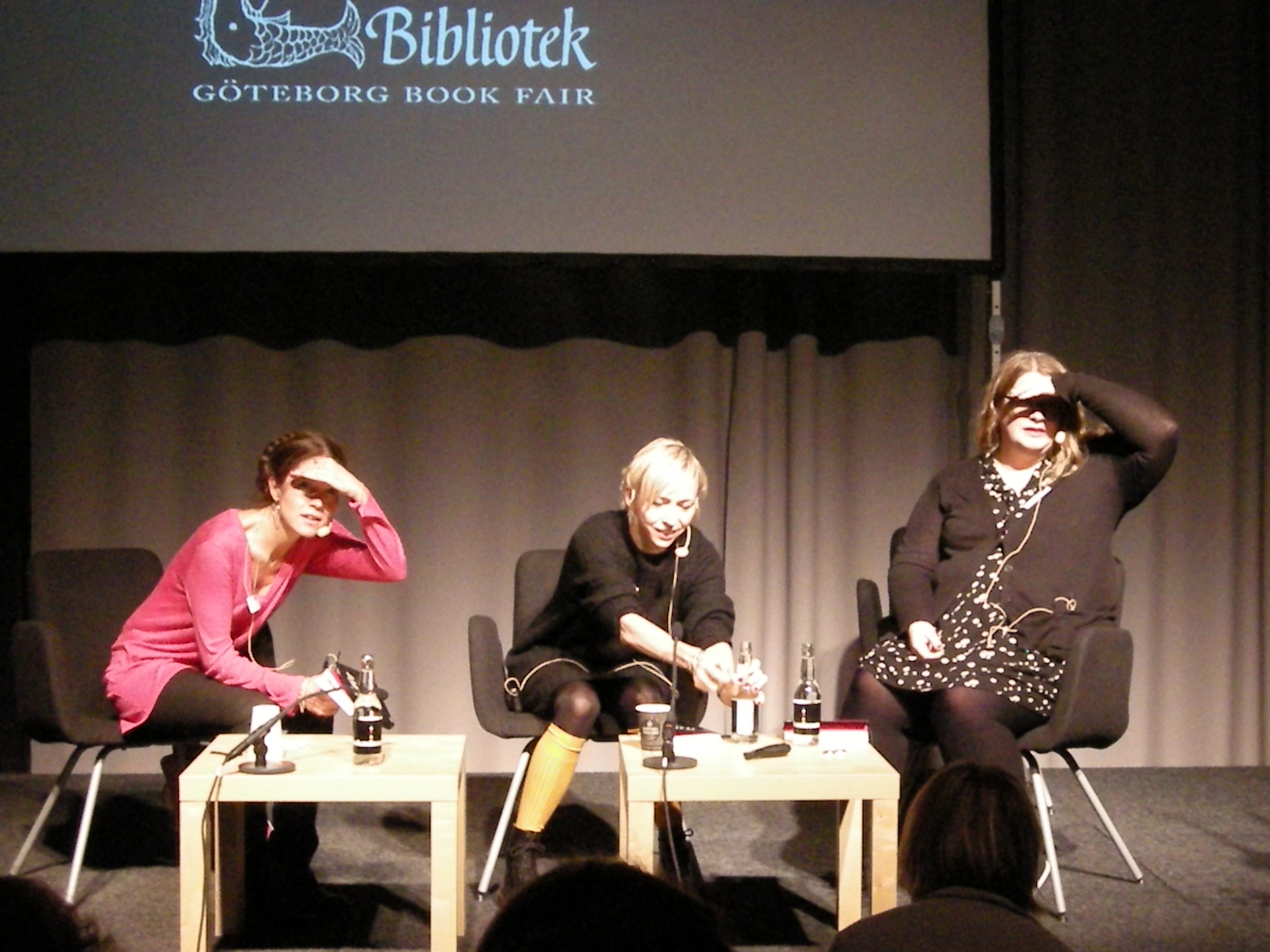 Swedish writers Åsa Anderberg Strollo, Jenny Jägerfeld and Sara Ohlsson at Göteborg Book Fair 2012